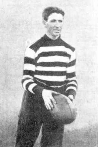 Photograph of Frank Moran from the 1910 Weekly Times Victorian Footballer Postcard Series